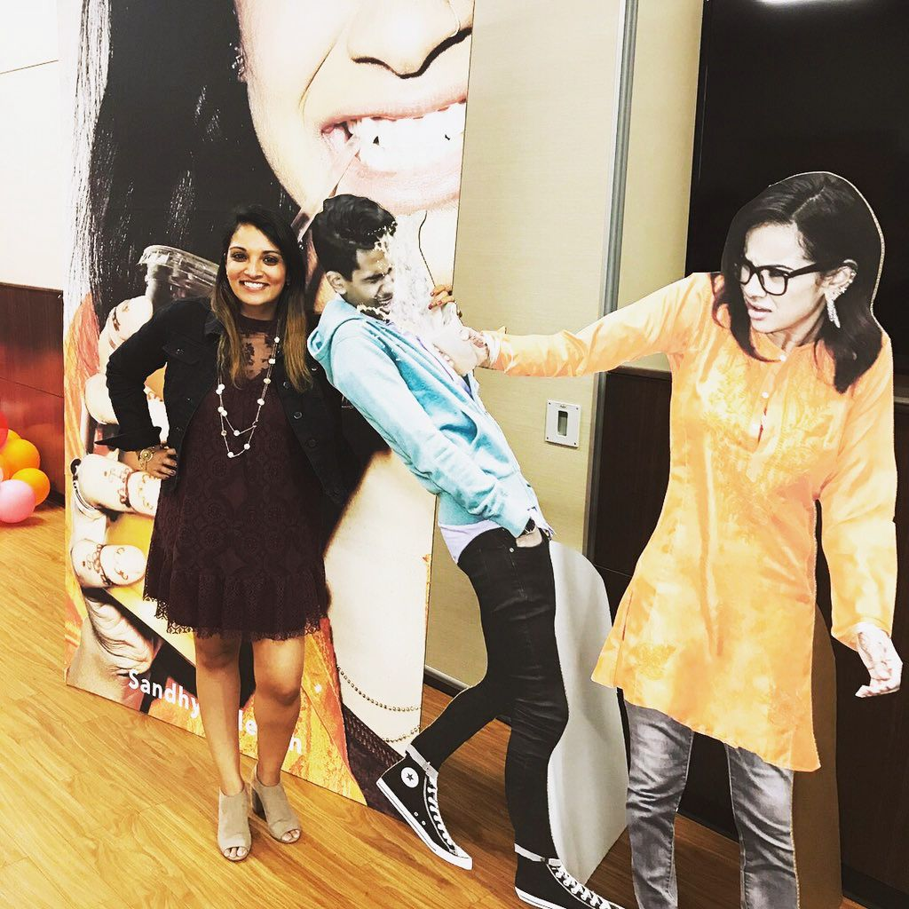 Menon at an event at the Irving Public Library with a life-size cutout of the back image on the cover of her book, When Dimple Met Rishi